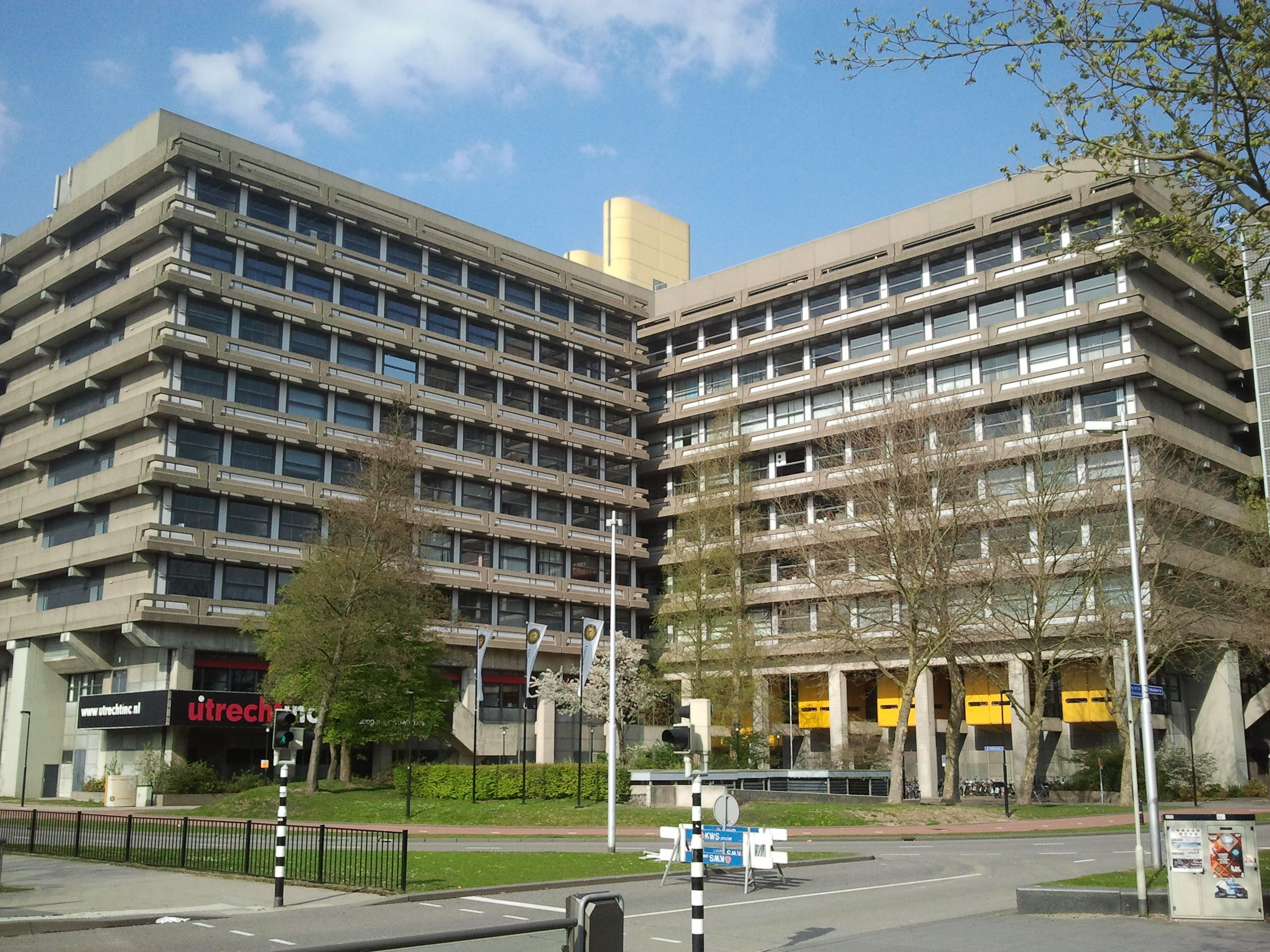 Photo of the H.R. Kruyt building of Utrecht University at Padualaan 8, Utrecht, The Netherlands